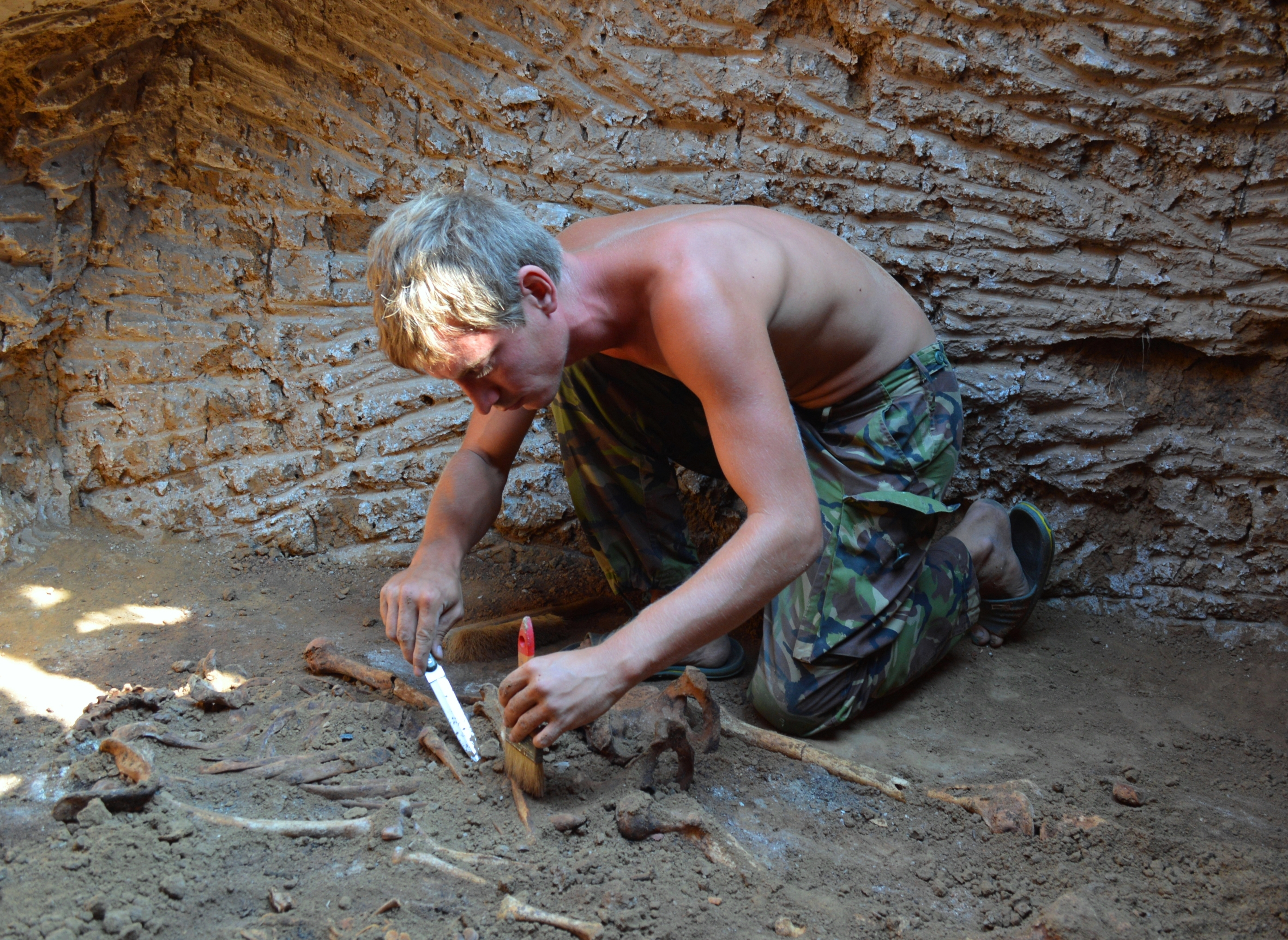 Ph.D student of South Ukrainian National Pedagogical university n.a. K.D.Ushynsky, Andry Toshchev, makes cleaning up of a grave of The Catacomb culture at the excavation of a grave mound not far from village Dmytrivka, Berdiansk district, Zaporizhzhya region